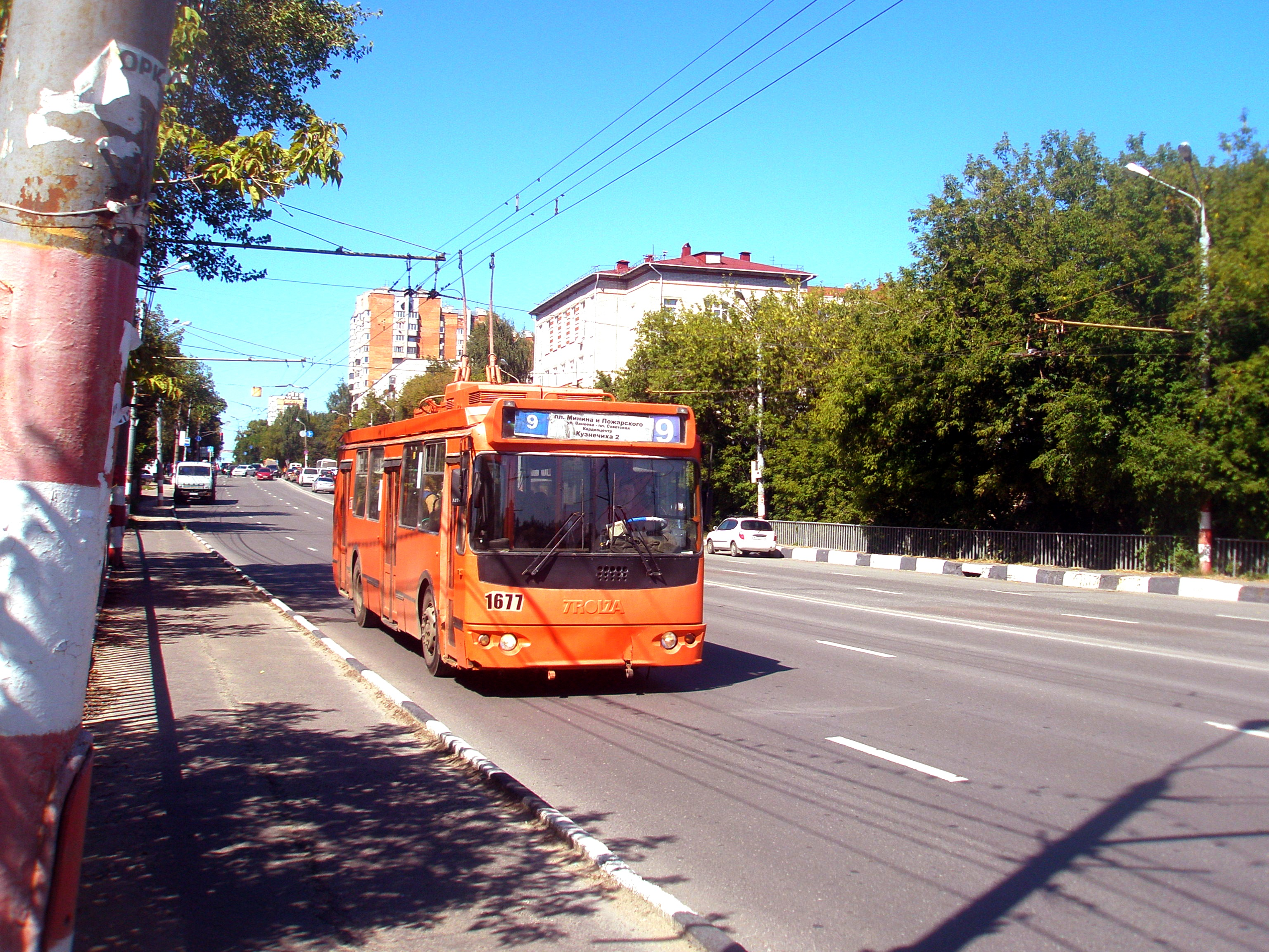 Trolleybus number 1677 in Nizhny Novgorod on Vaneyev Street on line 9